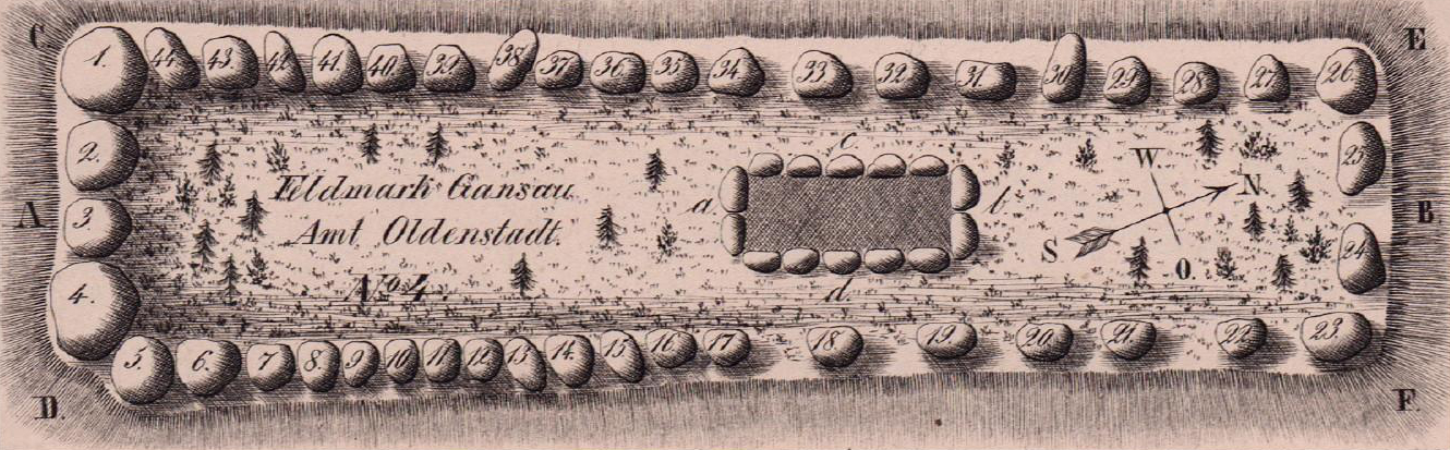 Megalithic tomb near Hanstedt II, Sprockhoff-No. 799